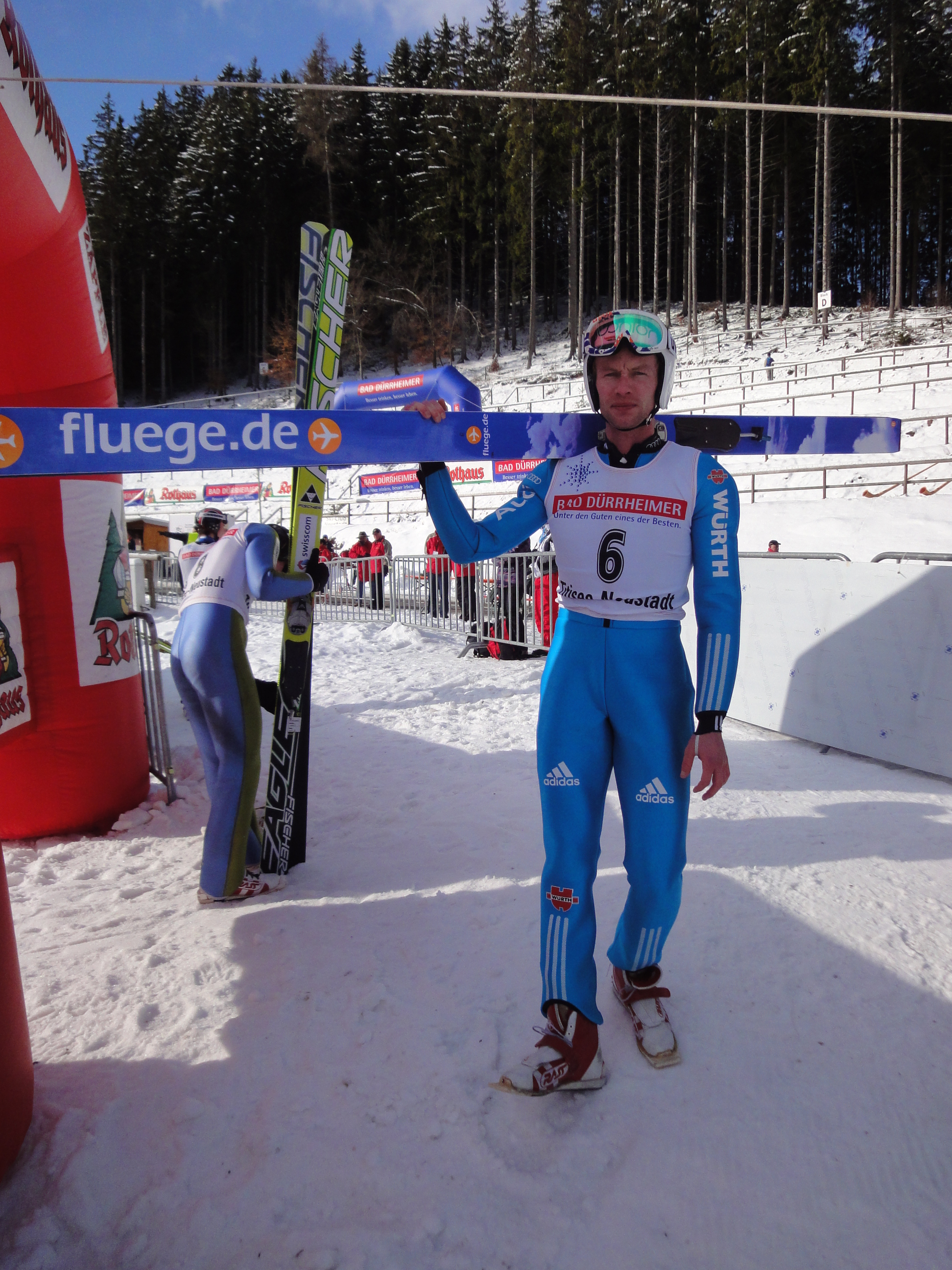 Maximilian Mechler: the photo was taken during Saturday's competition of 2011's Continental Cup event at the Hochfirstschanze in Titisee-Neustadt